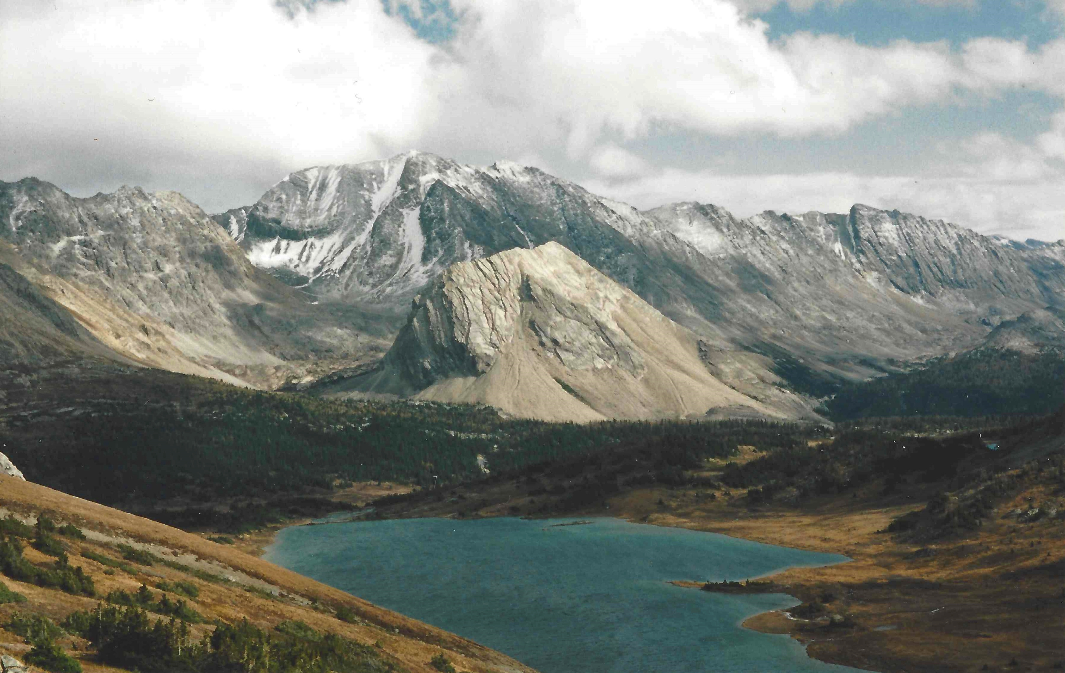 Baker Lake with Tilted Mountain and Lychnis Mountain in background. Banff National Park, Canada. View is from Deception Pass area.